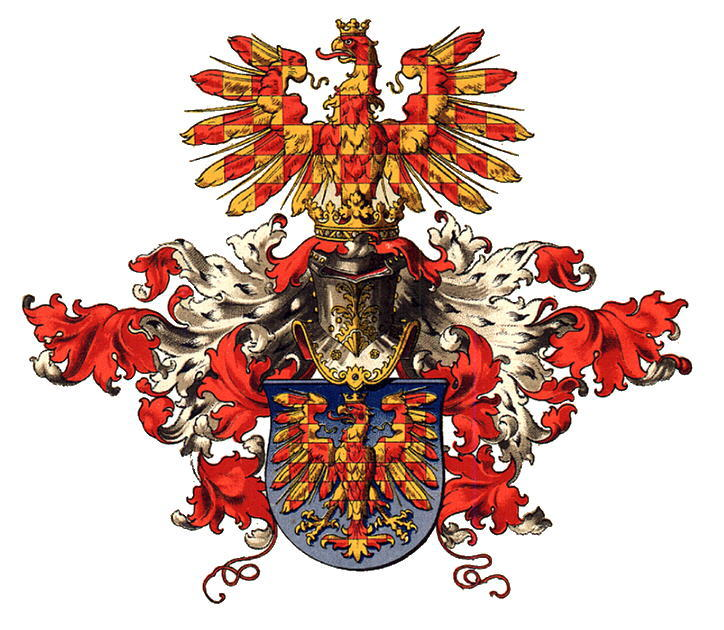 Unnoficial (not adopted) historical coat of arms of the Margraviate of Moravia. Moravia is now the region in Czech Republic.